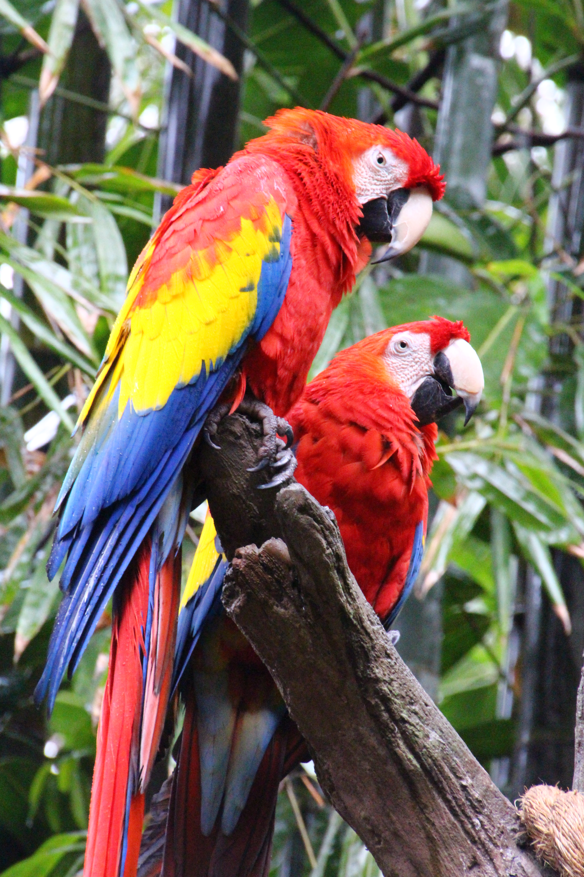 Scarlet Macaws (Ara macao) at Disney's Animal Kingdom.